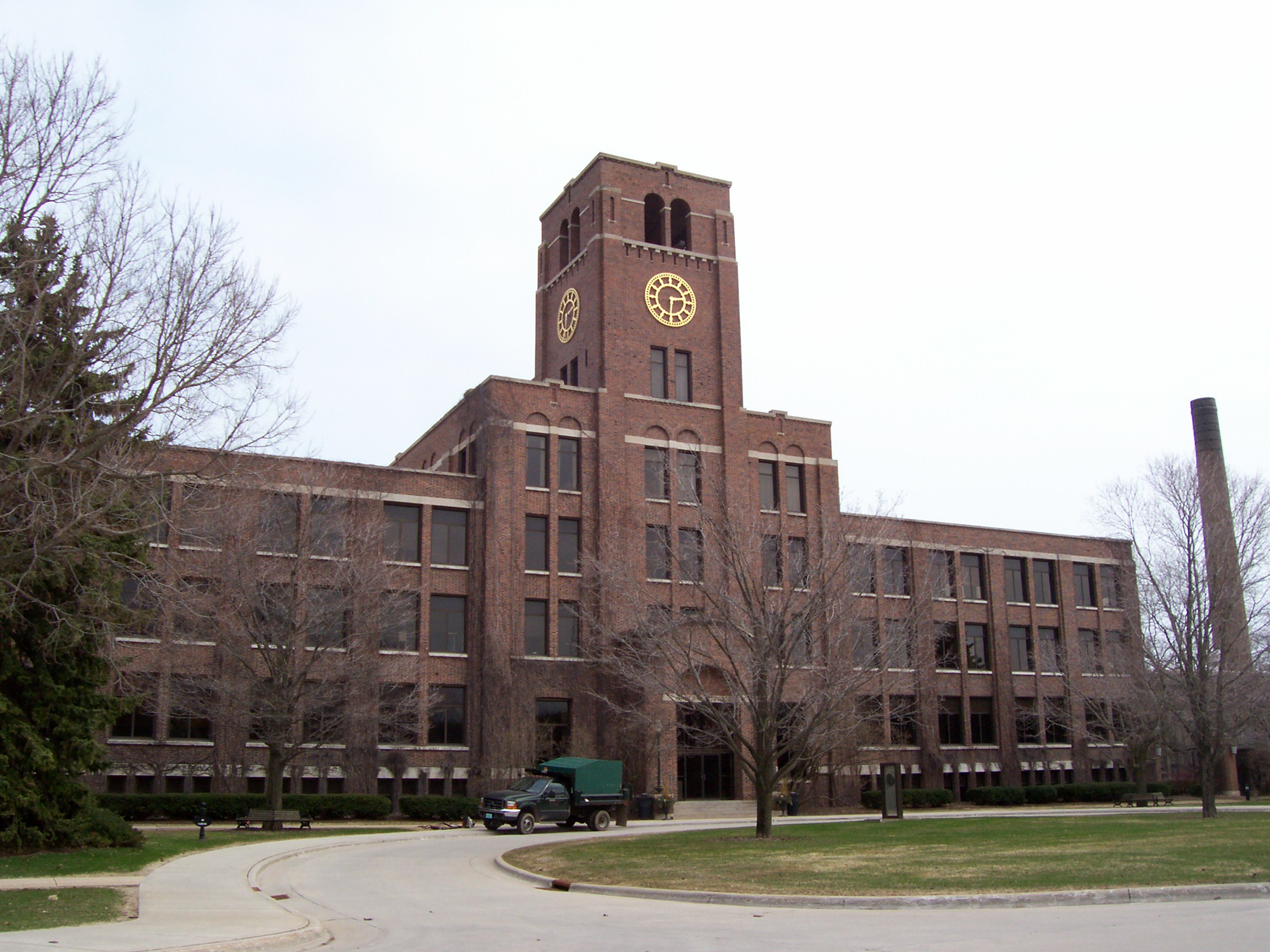 Looking east at the Kohler Company headquarters in Kohler, Wisconsin, USA.